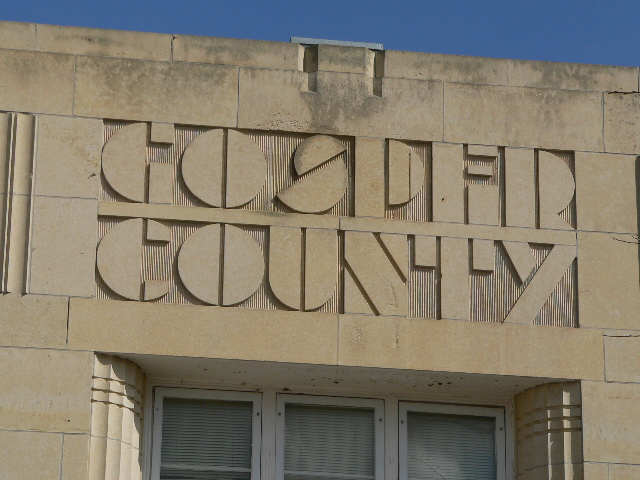 Art Deco inscription over the front door of the Gosper County courthouse, Elwood, Nebraska.